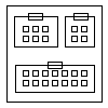 Affinity diagram created by Jon D Toellner.